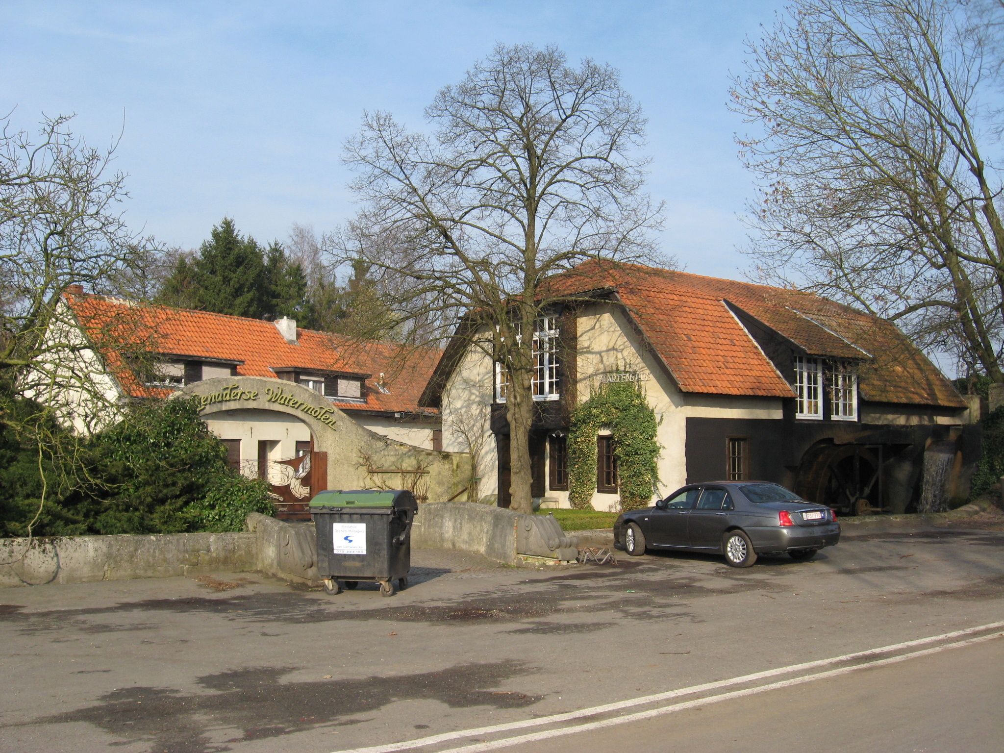 Former watermill of 't Genaderen in Houthalen, Houthalen-Helchteren, Limburg, Belgium